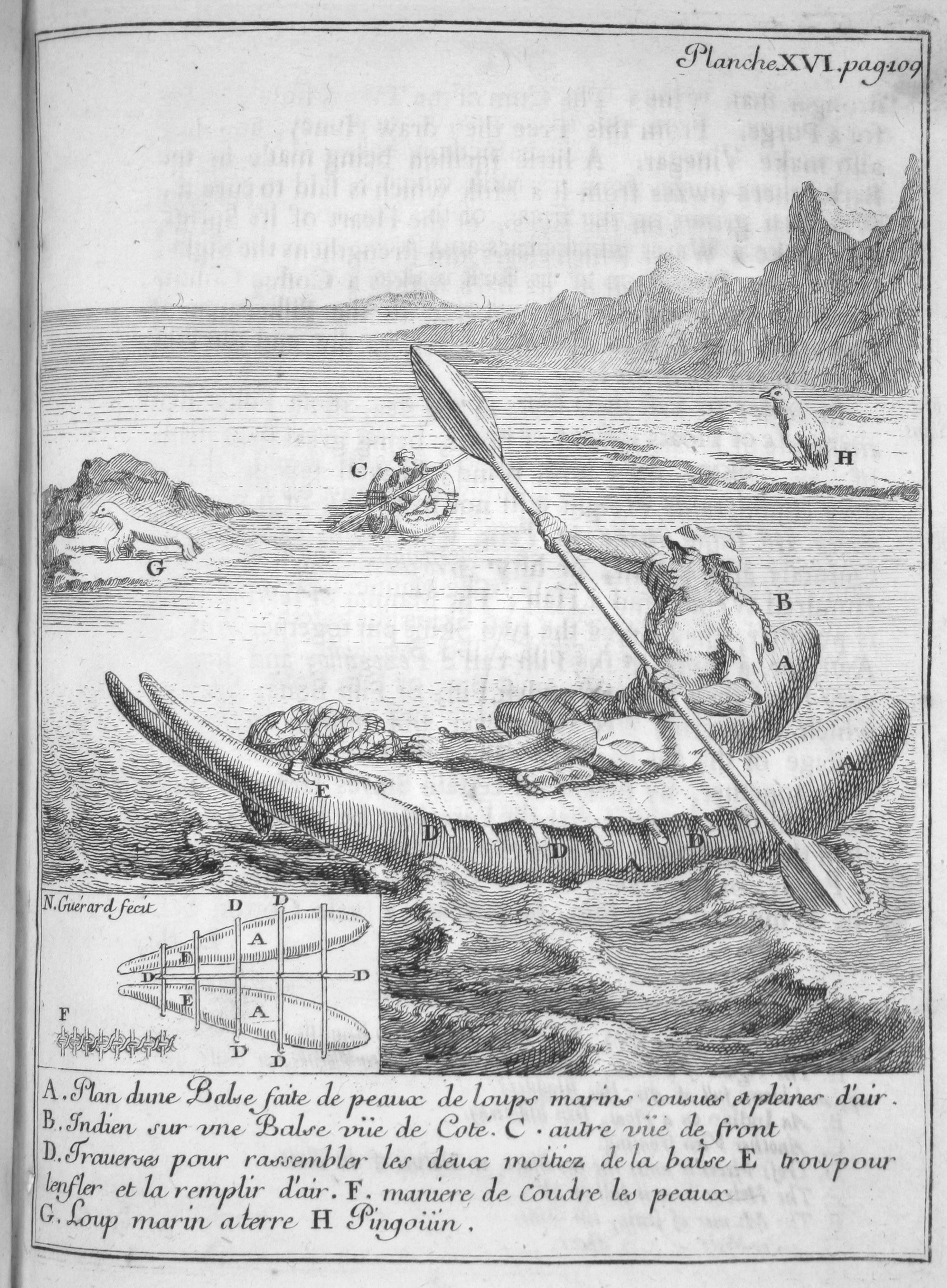 Planche XVI